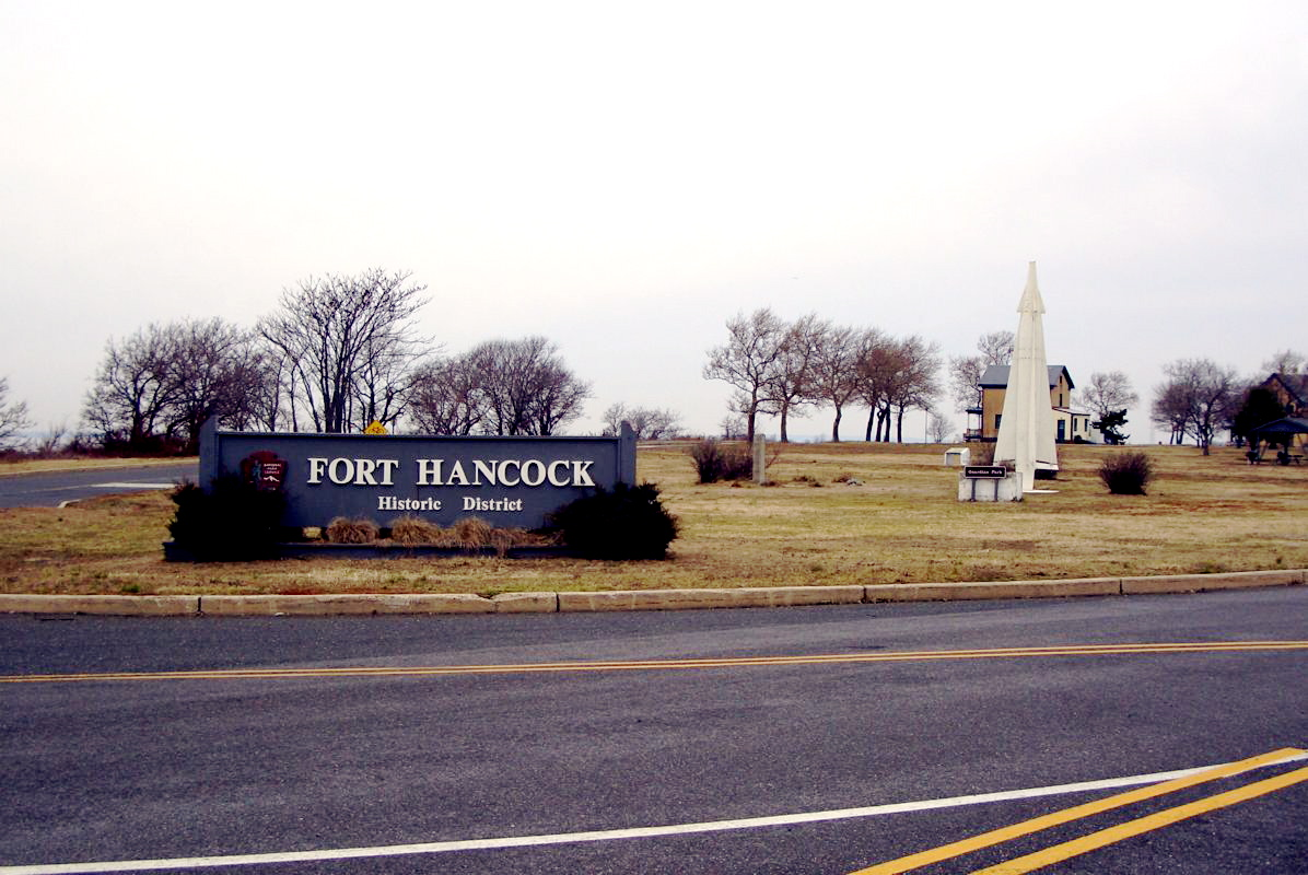 Mock-up of MIM-14 Nike-Hercules missile at entrance to Fort Hancock, NJ. self taken, all rights released